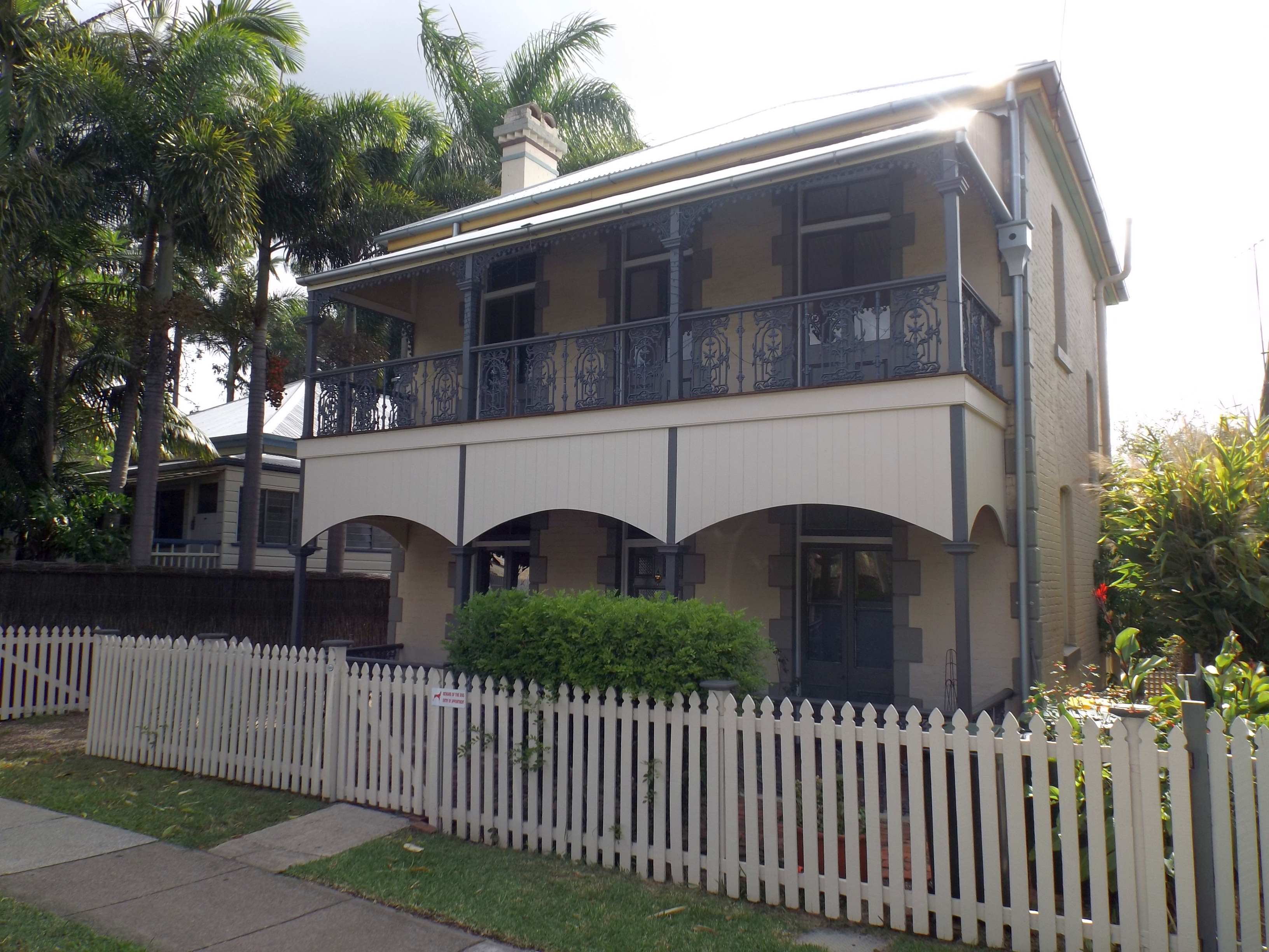 Photo of La Trobe residence at East Brisbane, Brisbane, Queensland, Australia.